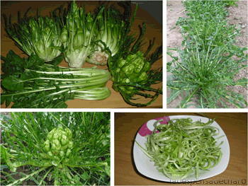 Puntarelle mosaic